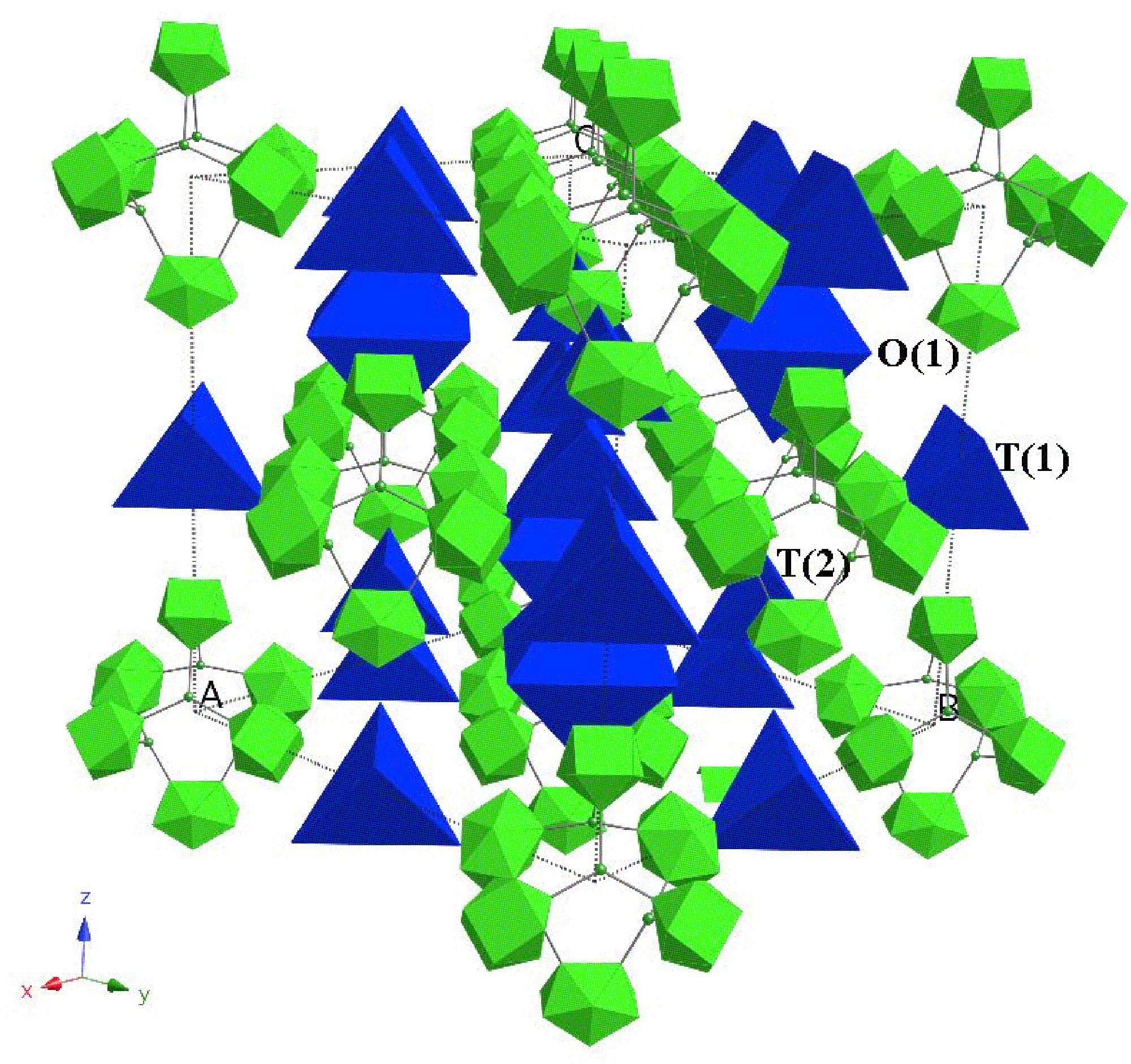 Boron framework structure of Sc0.83–xB10.0–yC0.17+ySi0.083–z depicted by supertetrahedra T(1) and T(2), superoctahedron O(1) and the superoctahedron based on B10 polyhedron. Vertexes of each superpolyhedron are adjusted to the center of the constituent icosahedra, thus the real volumes of these superpolyhedra are larger than appear in the picture.